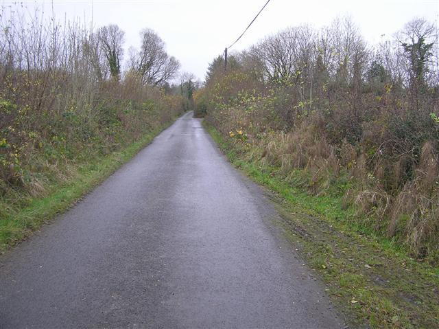 Road at Comalon Heading SSW